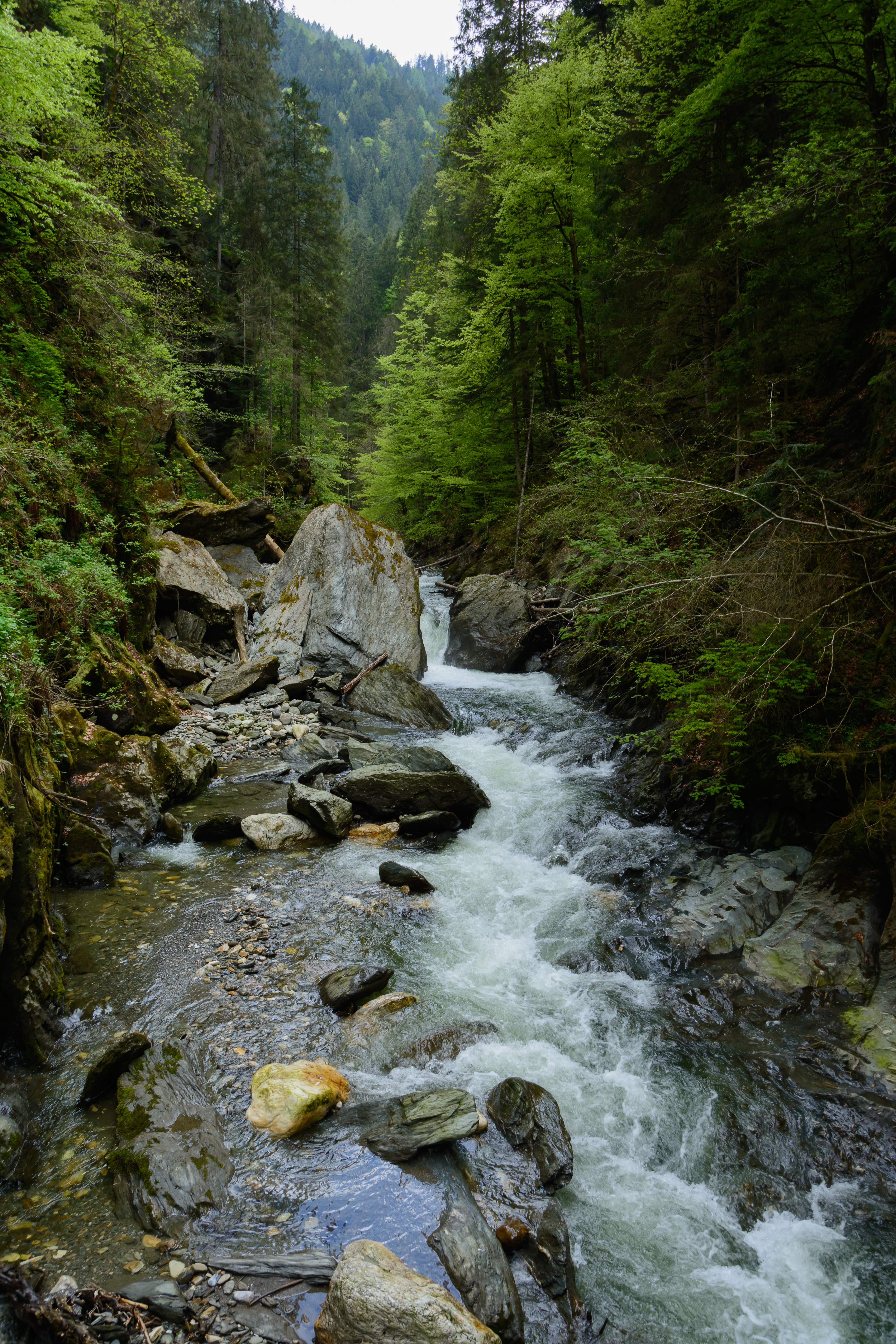 Gorge near Donnersbach, Styria, Austria This media shows the natural monument in Styria with the ID 966.